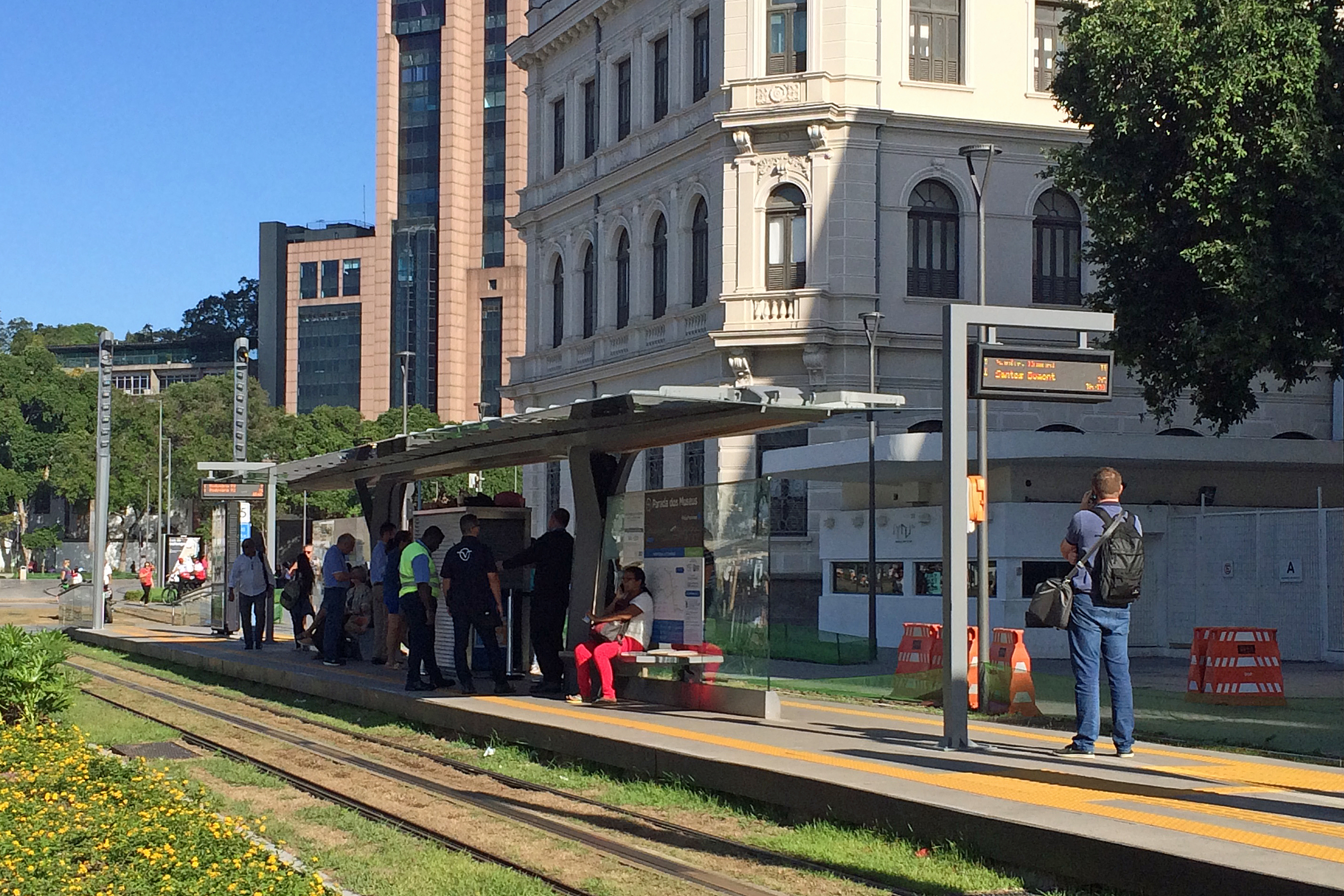 VLT Carioca, Rio de Janeiro. Parada dos Museus (Museums station).